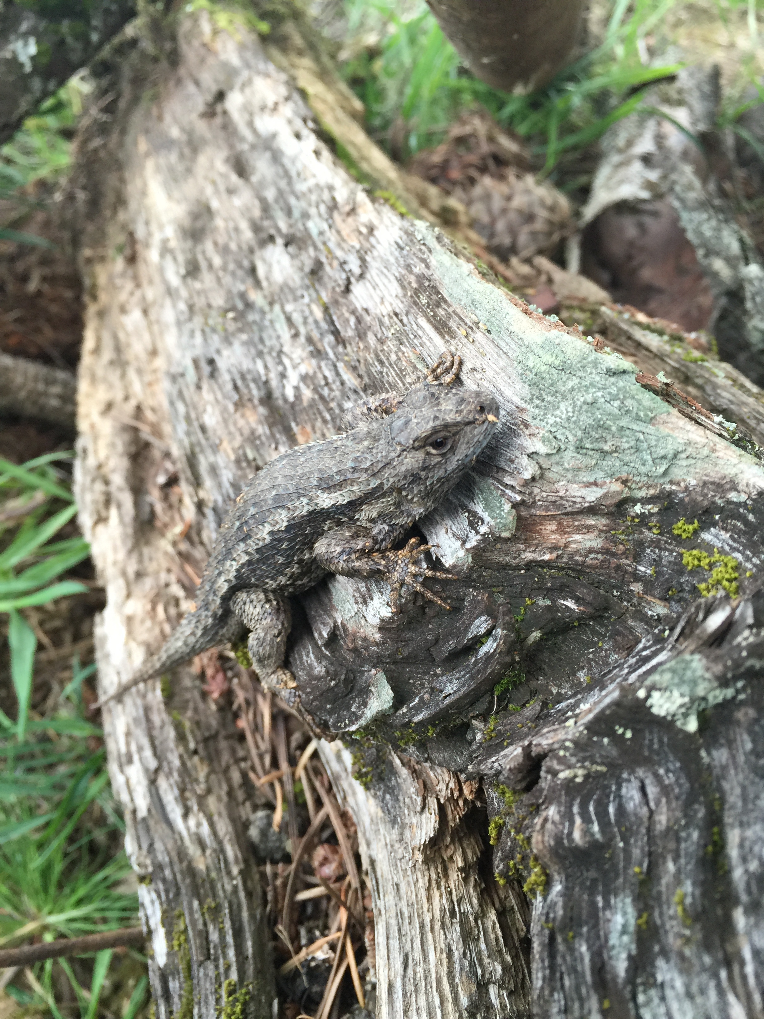 A western fence lizard in Oregon on a log